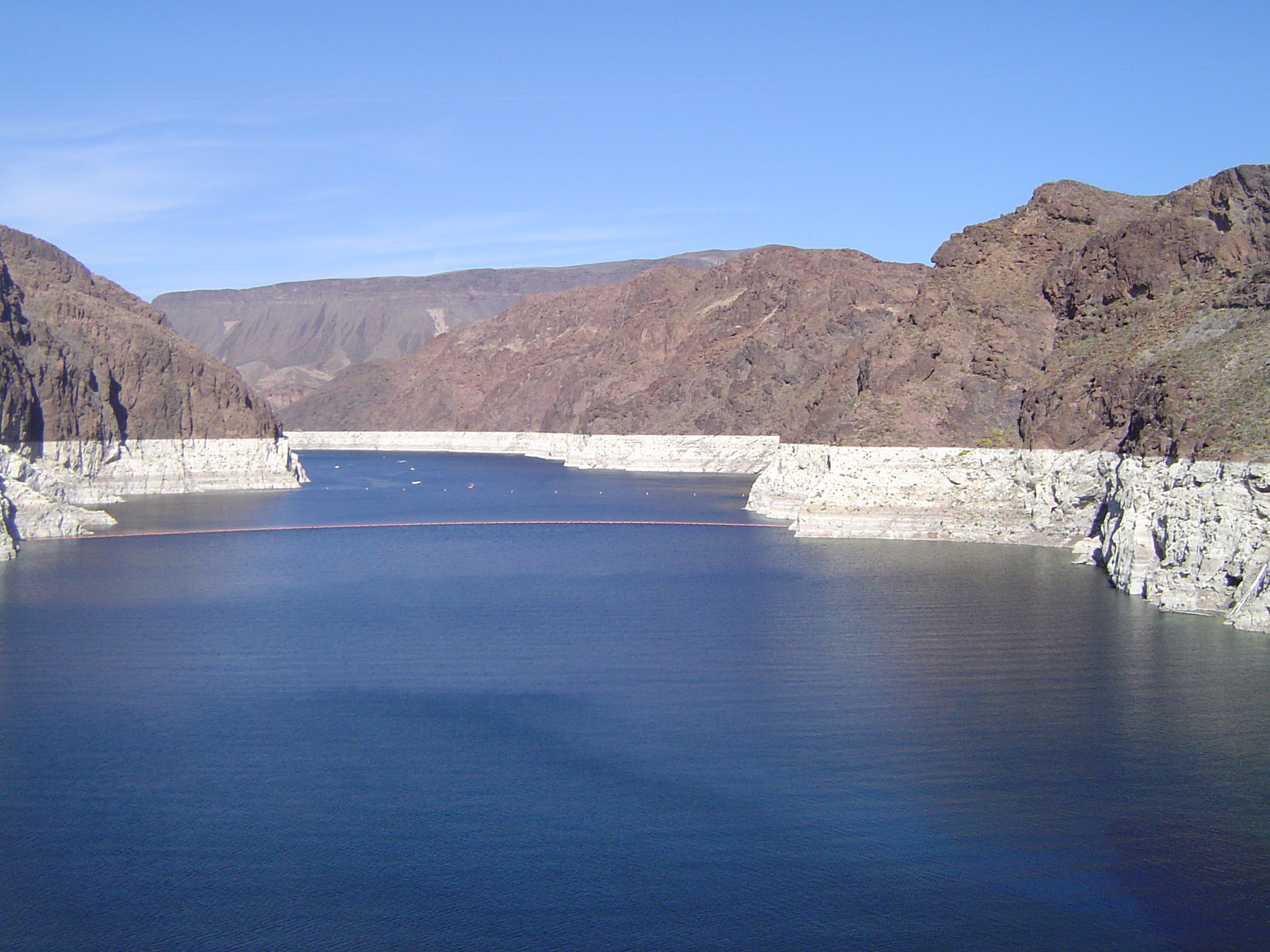 Lake Mead seen from Hoover Dam